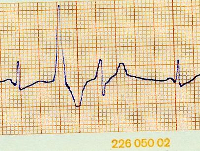 A couplet on an ECG strip.